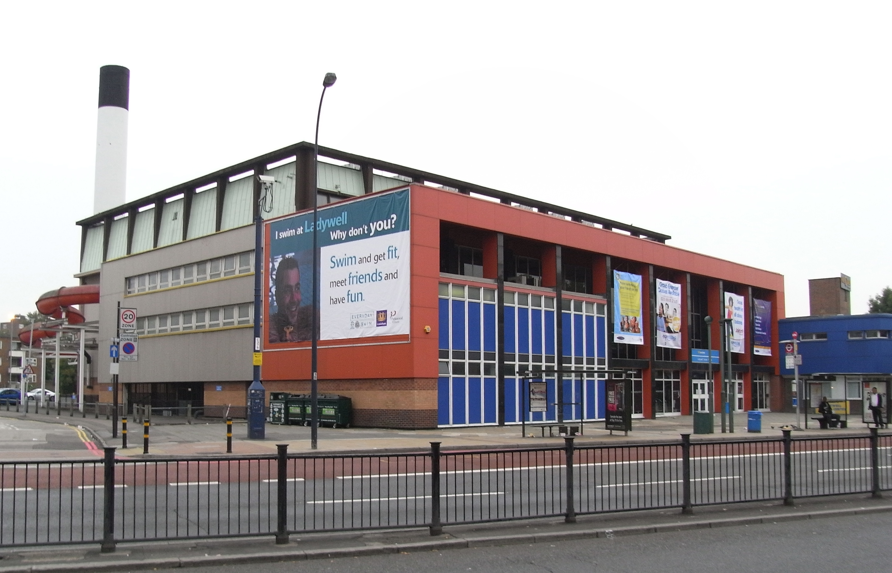 Ladywell Leisure Centre, Lewisham High Street